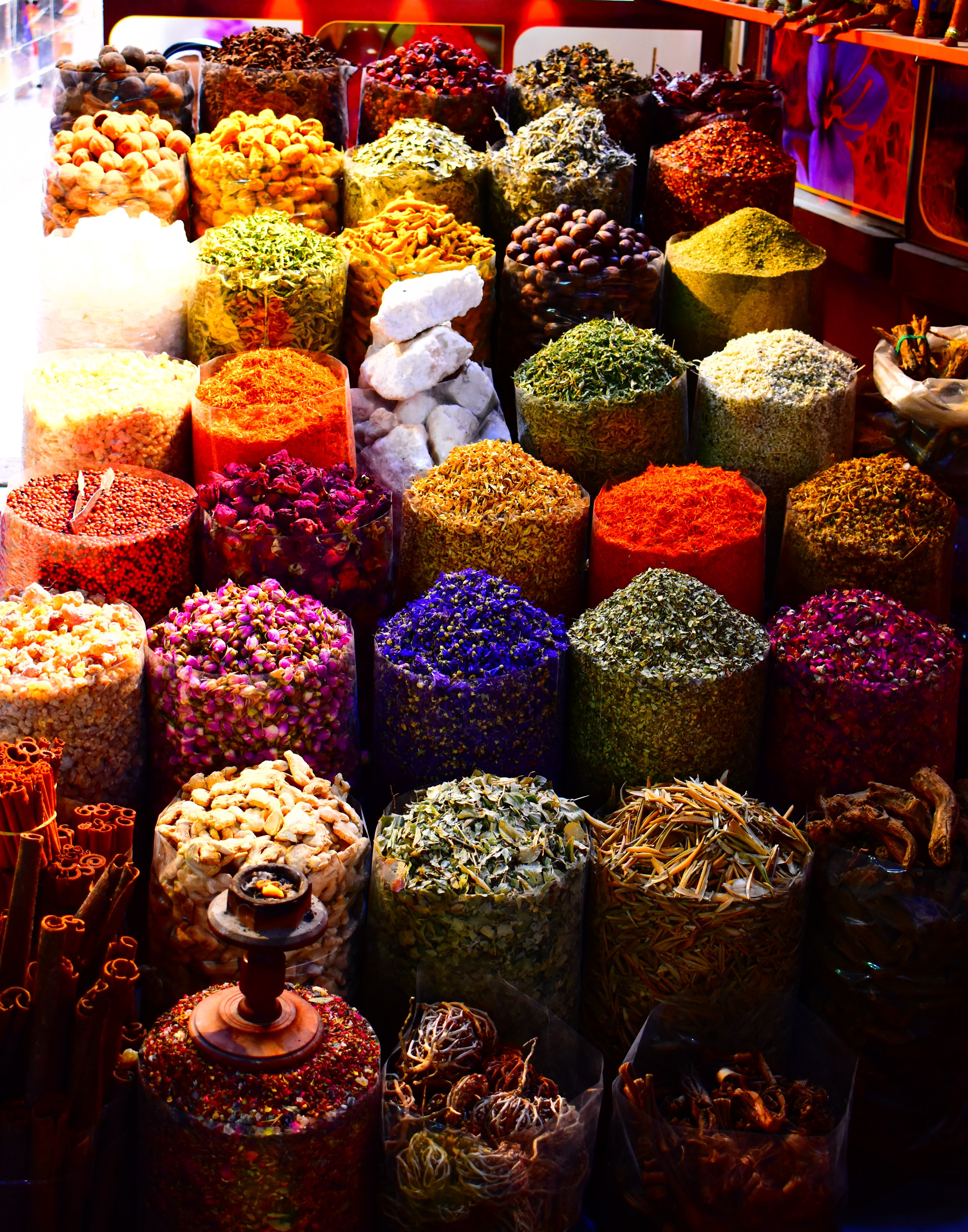 Different colourful spices